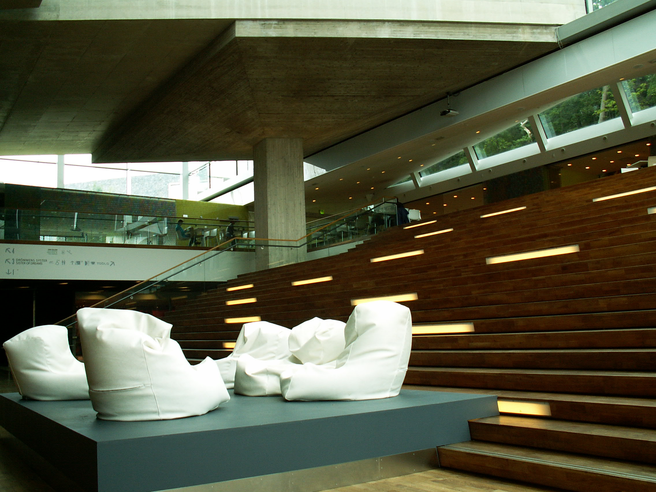 Göteborg Världskulturmuseet (Museum of World Culture)